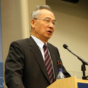 wu rong-i Bân-lâm-gú: Ngôo Îng-gī. 吳榮義